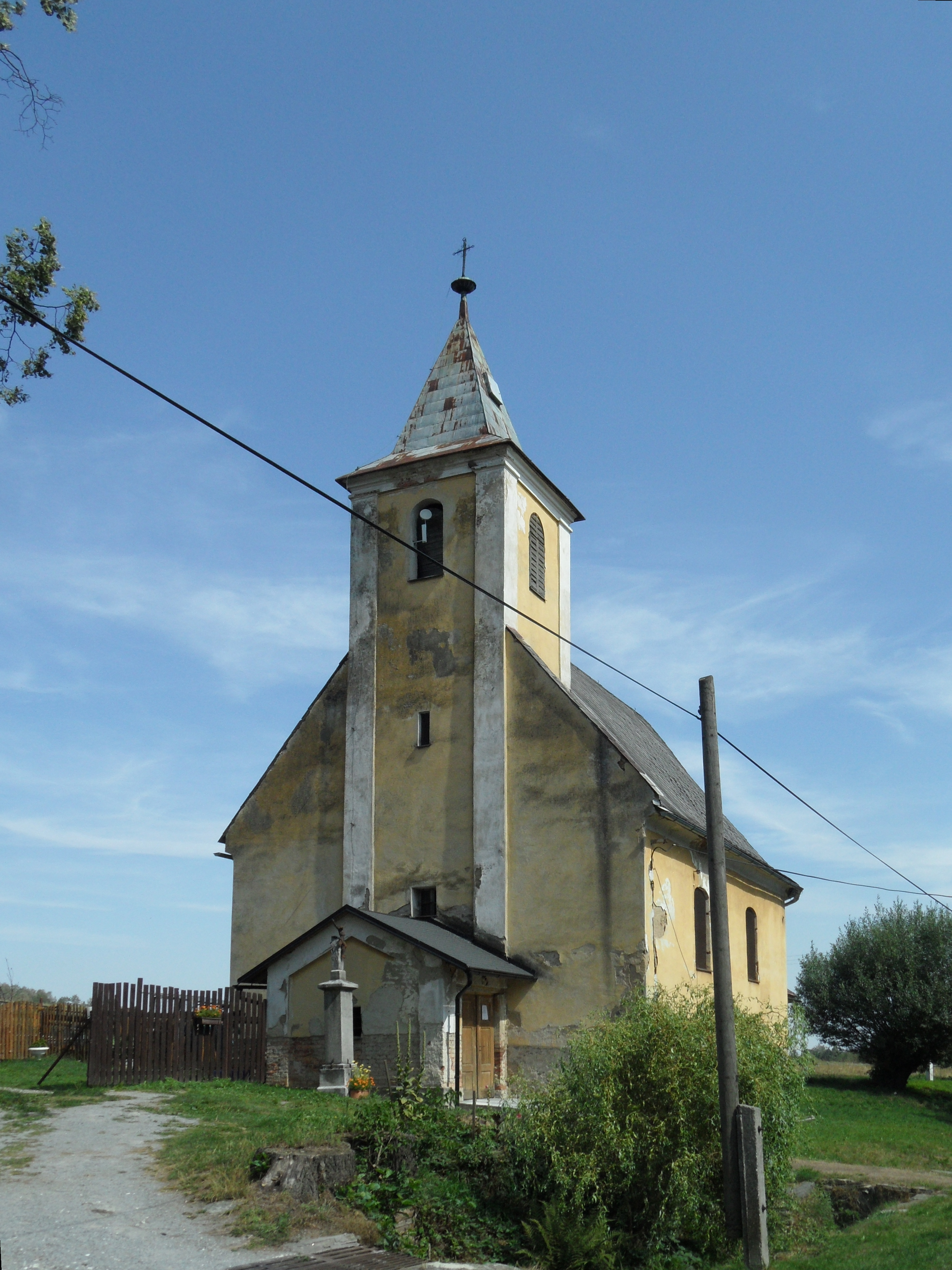 Vojtovice A. Church of Saint Ignatius, View from South. Jeseník District, the Czech Republic.